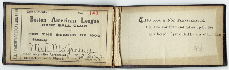 Accession No.: 06_06_000167 Title: Boston Americans season pass, 1906 Creator: unidentified Date: 1906 Format: ephemera Description: Season pass number 147 to the Huntington Avenue Grounds, home field of the Boston Americans. Leather booklet with all the coupons removed. Printed text: All Detached Coupons Are Void. No. 147 Compliments...Boston American League Base Ball Club. For The Season Of 1906 Admitting (Signed M.F. McGreevy) Good only after Agreement on Back Cover is Signed. Printed signature of John I. Taylor, President. Back inside cover: This book is Not Transferable. It will be Forfeited and taken up by the gate-keeper if presented by any other than: BPL Collection: McGreevey Collection BPL Department: Print Relation: open Subject: Baseball--History Boston Red Sox (Baseball team)